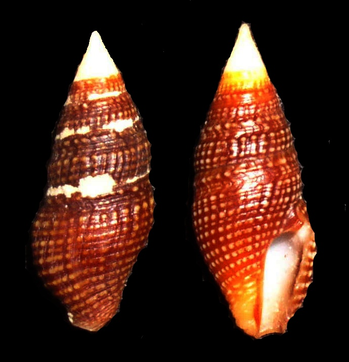 Crassispira cerithina (Anton, 1838) (synonym: Turridrupa cerithina) from Mindanao, the Philippines